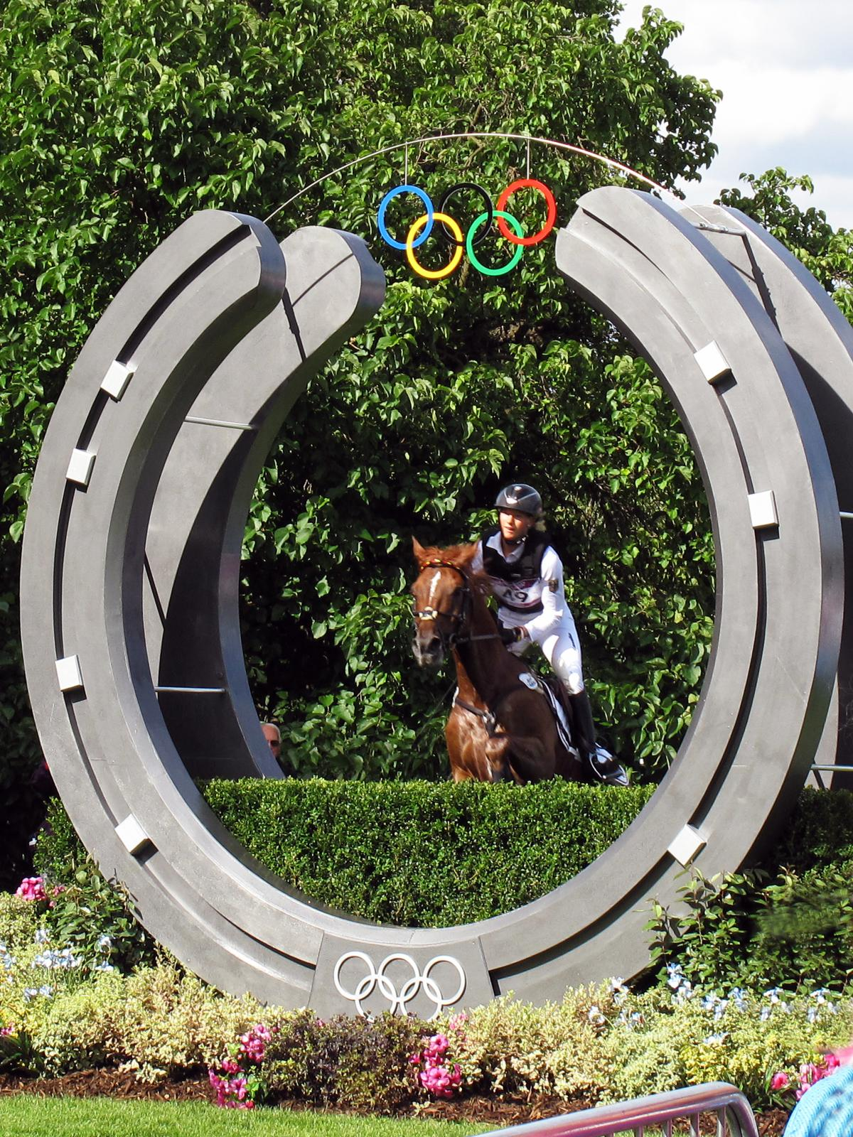 Olympic 3-day event, Sandra Auffarth with Opgun Louvo at the last fence of the 2012 Olympic cross country course